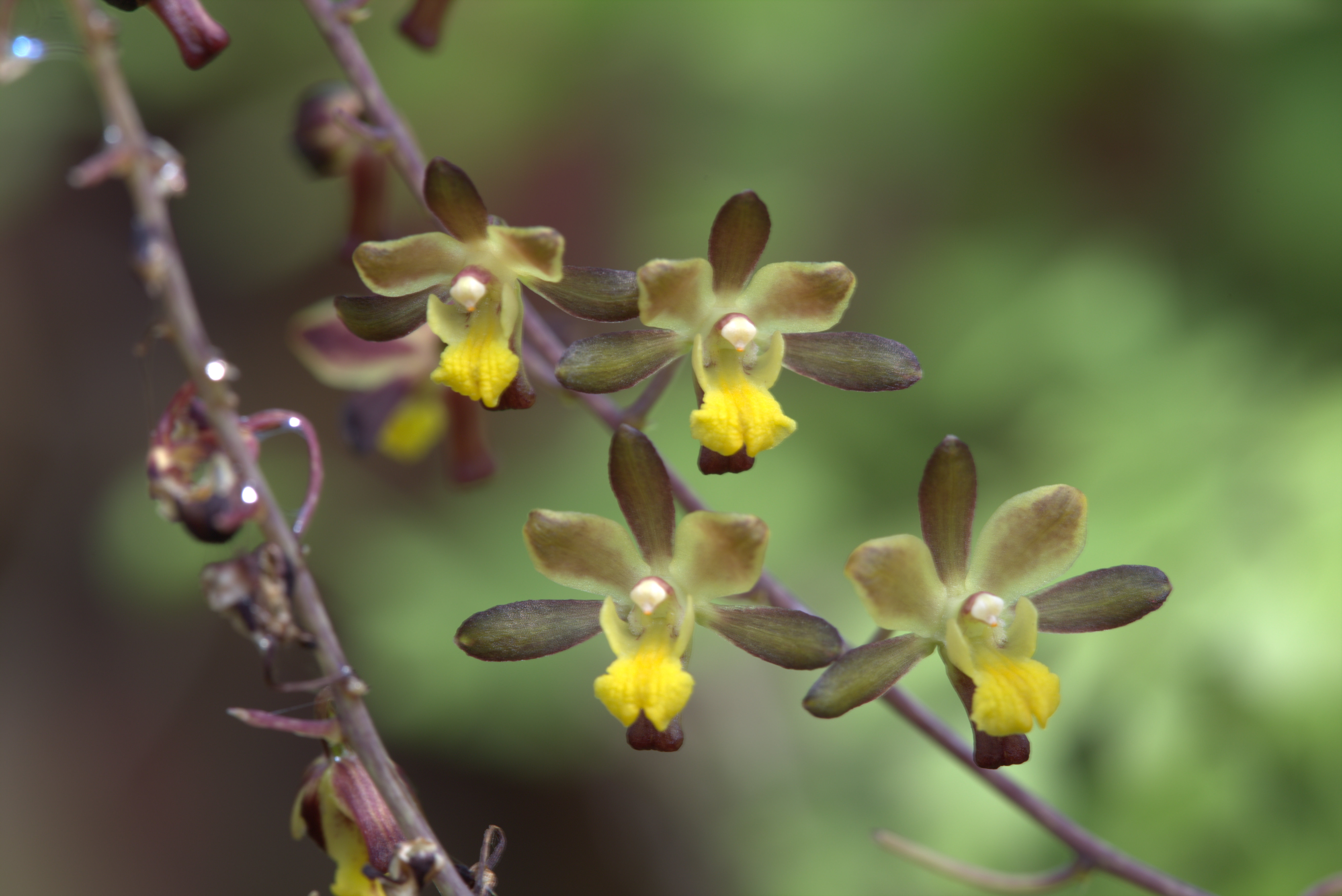 Graphorkis lurida in Gotehenburg Botanical Garden in 2015. Plant id: 1992-V0197 p W -- Halla...